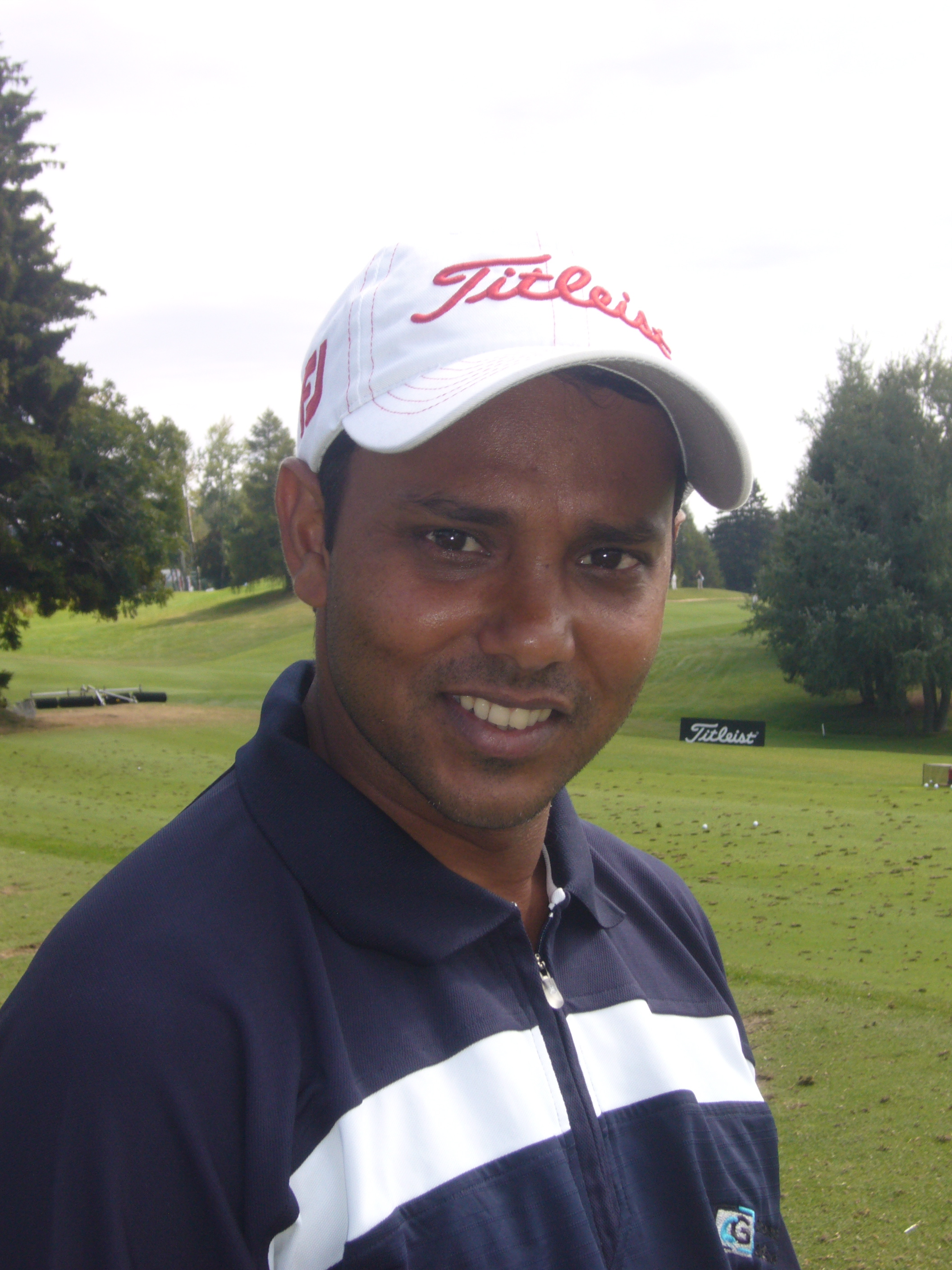 SSP Chowrasia, professional golfer